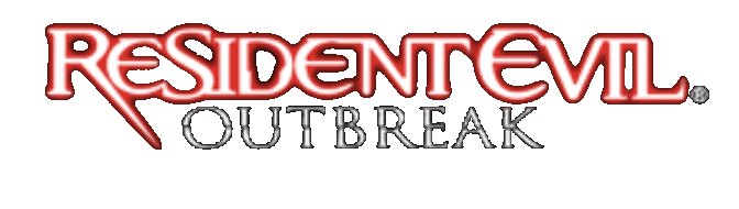 American Resident Evil Outbreak logo